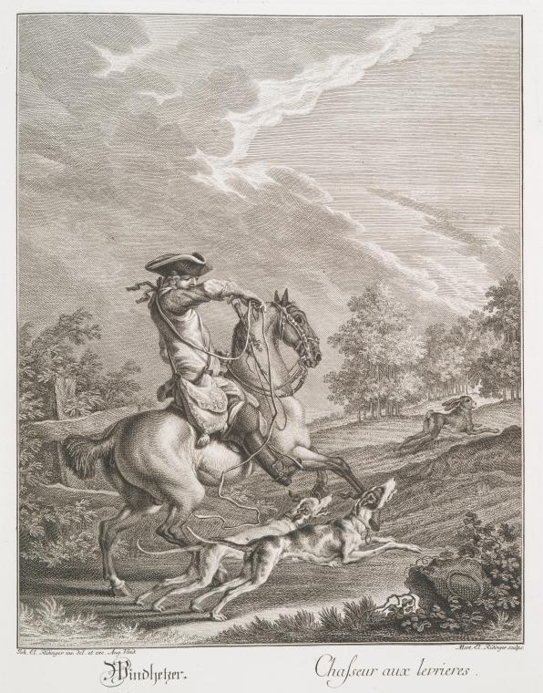 Captions: "Windhetzer. / Chasseur aux levrieres" (hunter with sighthounds)